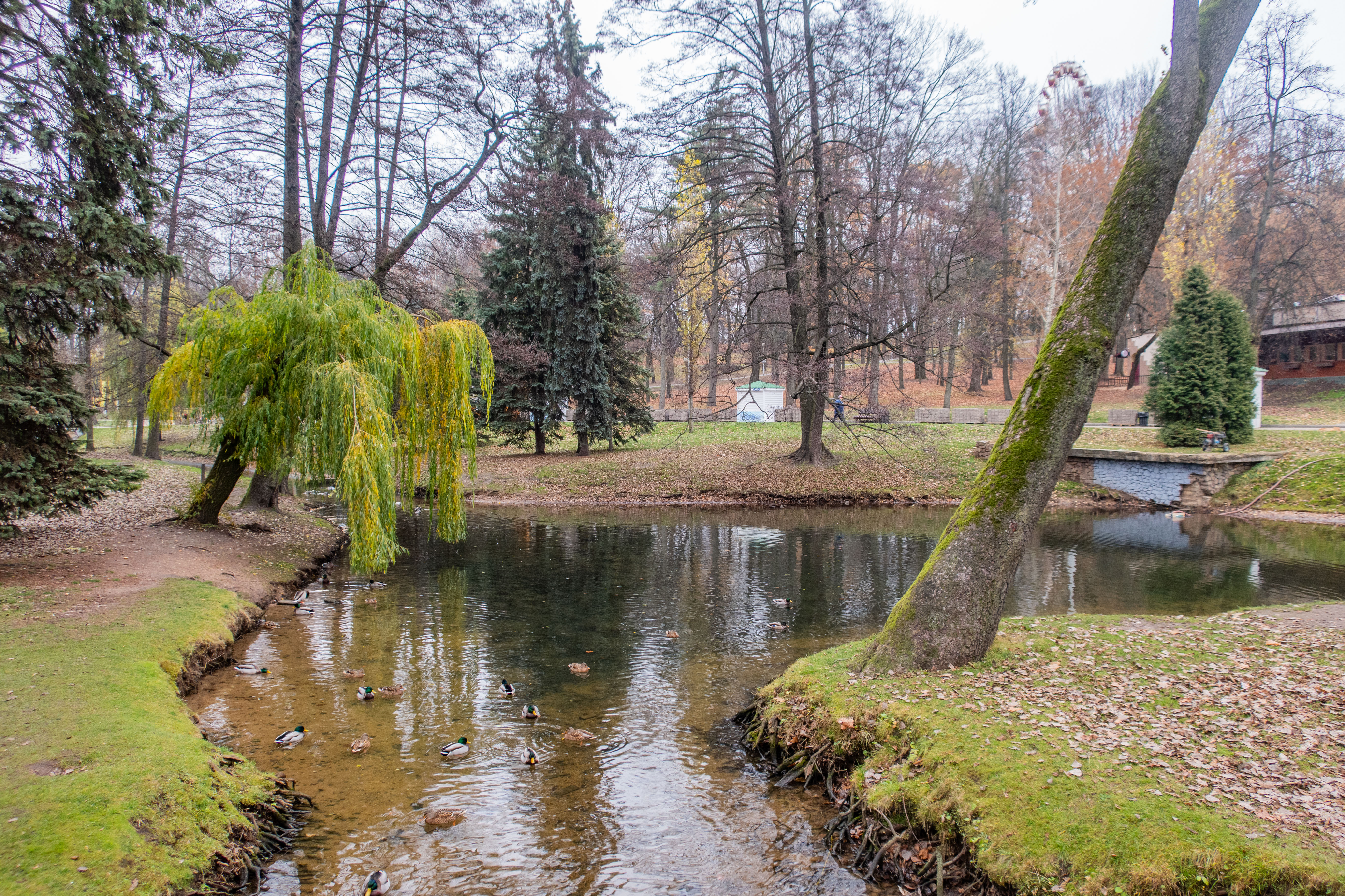 Central Children's Park — Park Horkaha (Gorky). Minsk, Belarus